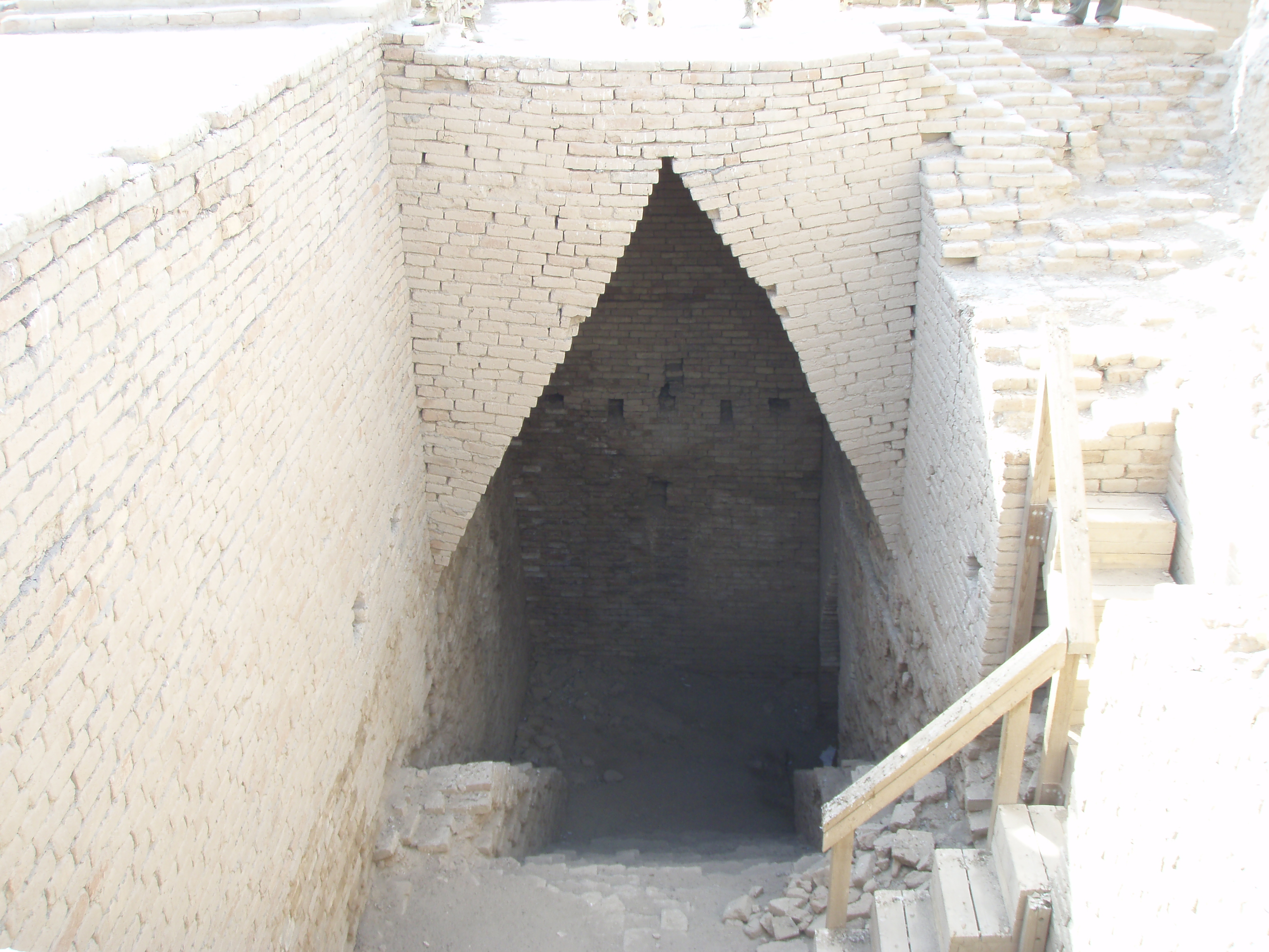 Tomb of king in Ur, Iraq